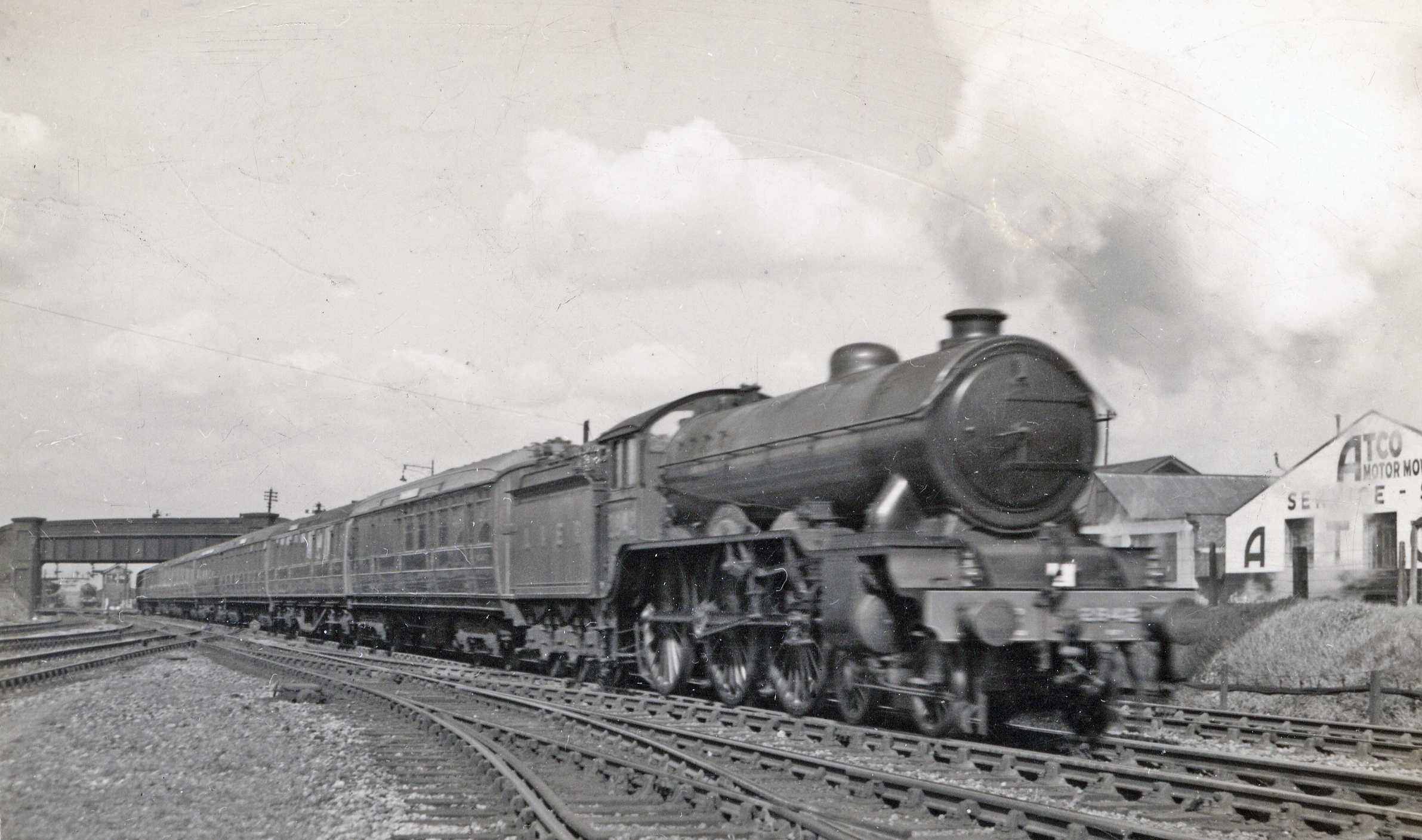 Pre-war 'Garden Cities Express' leaving Cambridge for London King's Cross, 1939View northward from near Hills Road,south of Cambridge station. The train is taking the LNER main lines and parting from the LMSR line to Bletchley. The locomotive is Gresley B17/2 'Sandringham' class 4-6-0 No. 2842 'Kilverstone Hall', built 5/33, renumbered 1642 in 1946 and as BR No. 61642 was rebuilt to B17/6 in 1/49 and withdrawn in 9/58 - relatively early.